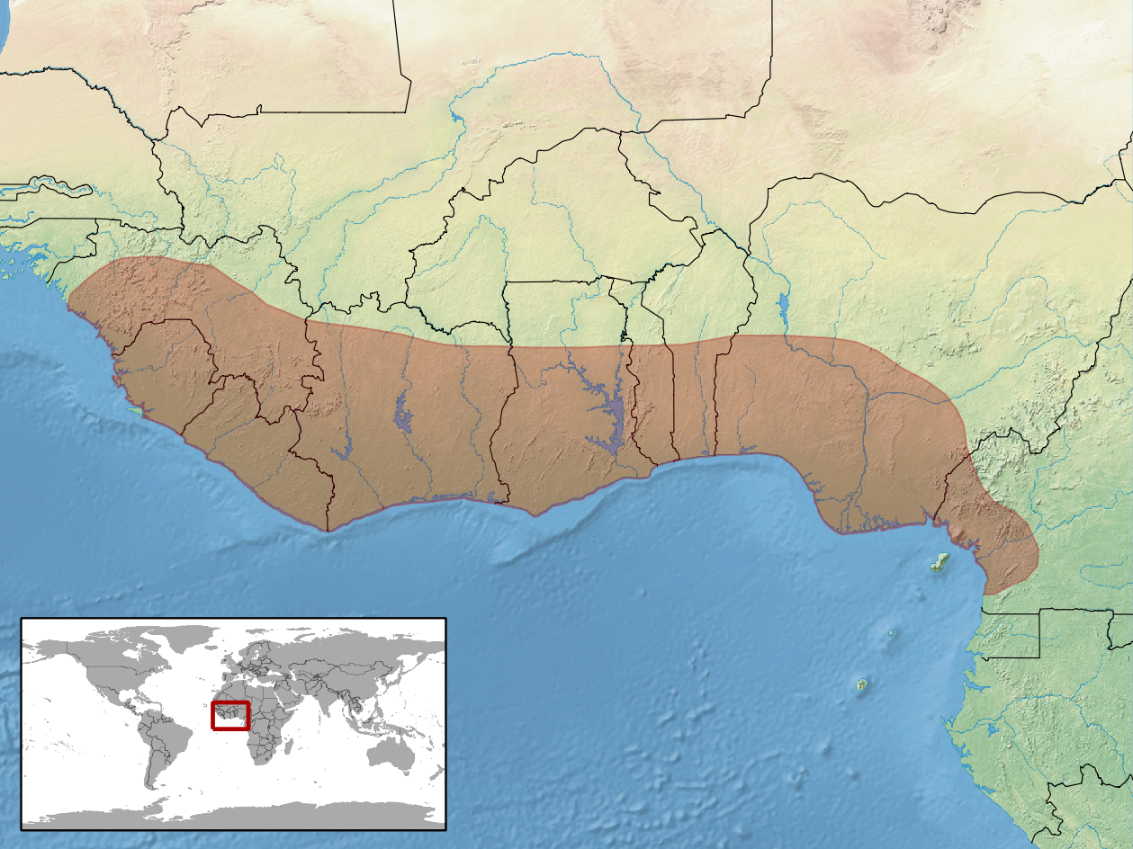 geographic distribution of Atheris chlorechis (Native: Benin; Cameroon; Côte d'Ivoire; Ghana; Guinea; Liberia; Nigeria; Sierra Leone; Togo)